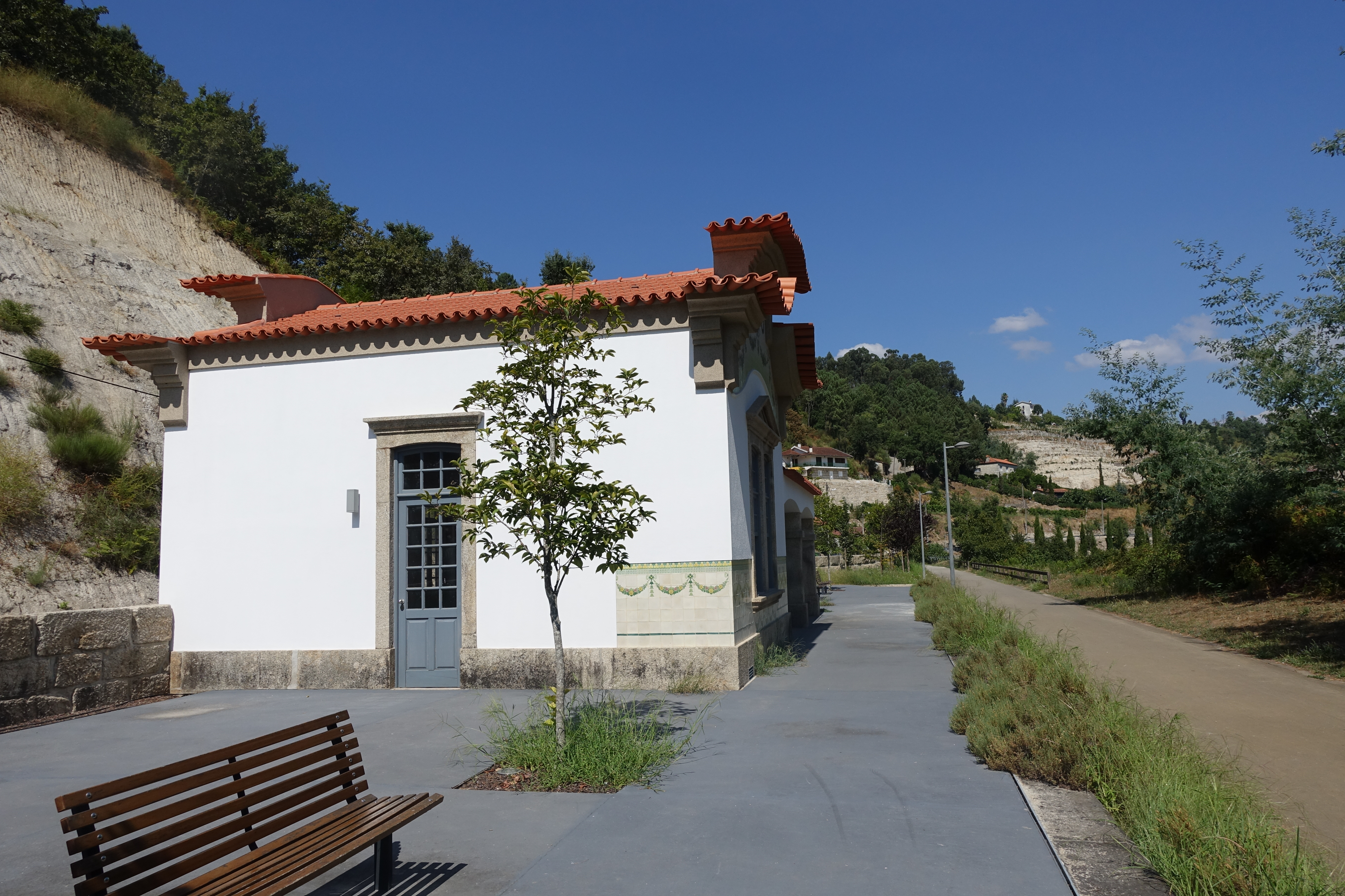 Ecopista do Tâmega, Portugal.